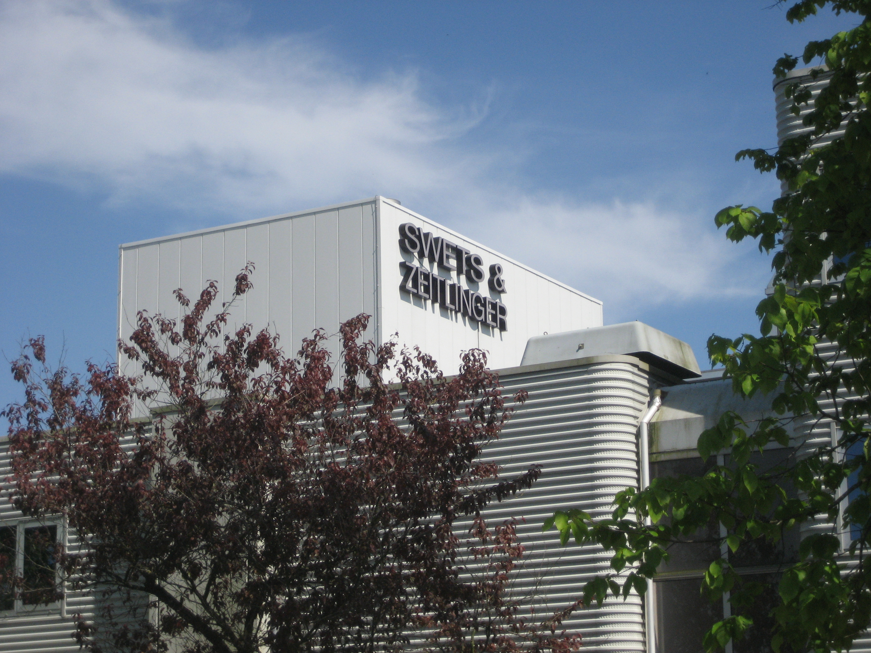 Former office buildings of publishing firm Swets & Zeitlinger, Lisse (The Netherlands)